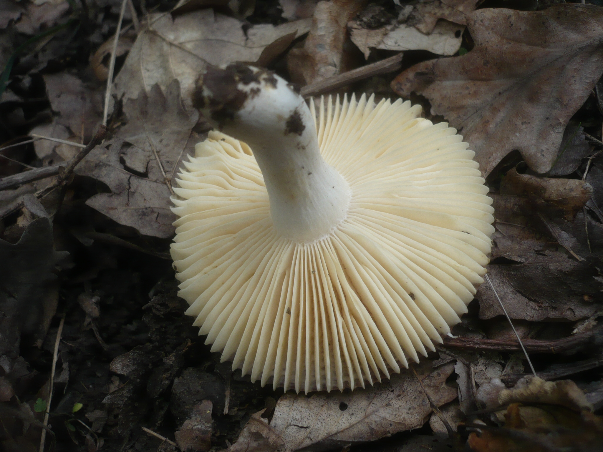 Russula odorata Romagn. Image location: Ragerwald, Raiding, Bezirk Oberpullendorf, Burgenland, Austria Recognized by sight For more information about this, see the observation page at Mushroom Observer.